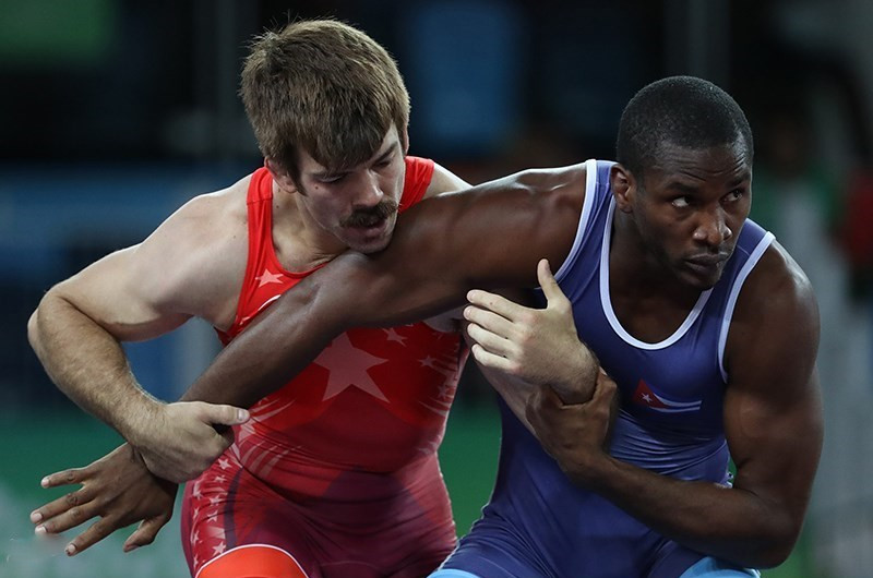 Wrestling at the 2016 Summer Olympics to 75 kg